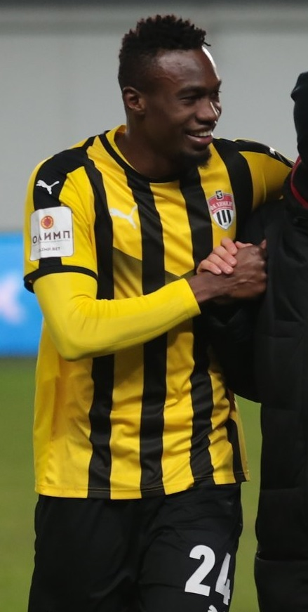 Mohamed Konaté with FC Khimki after a Russian Cup quarterfinal victory over FC Torpedo Moscow.